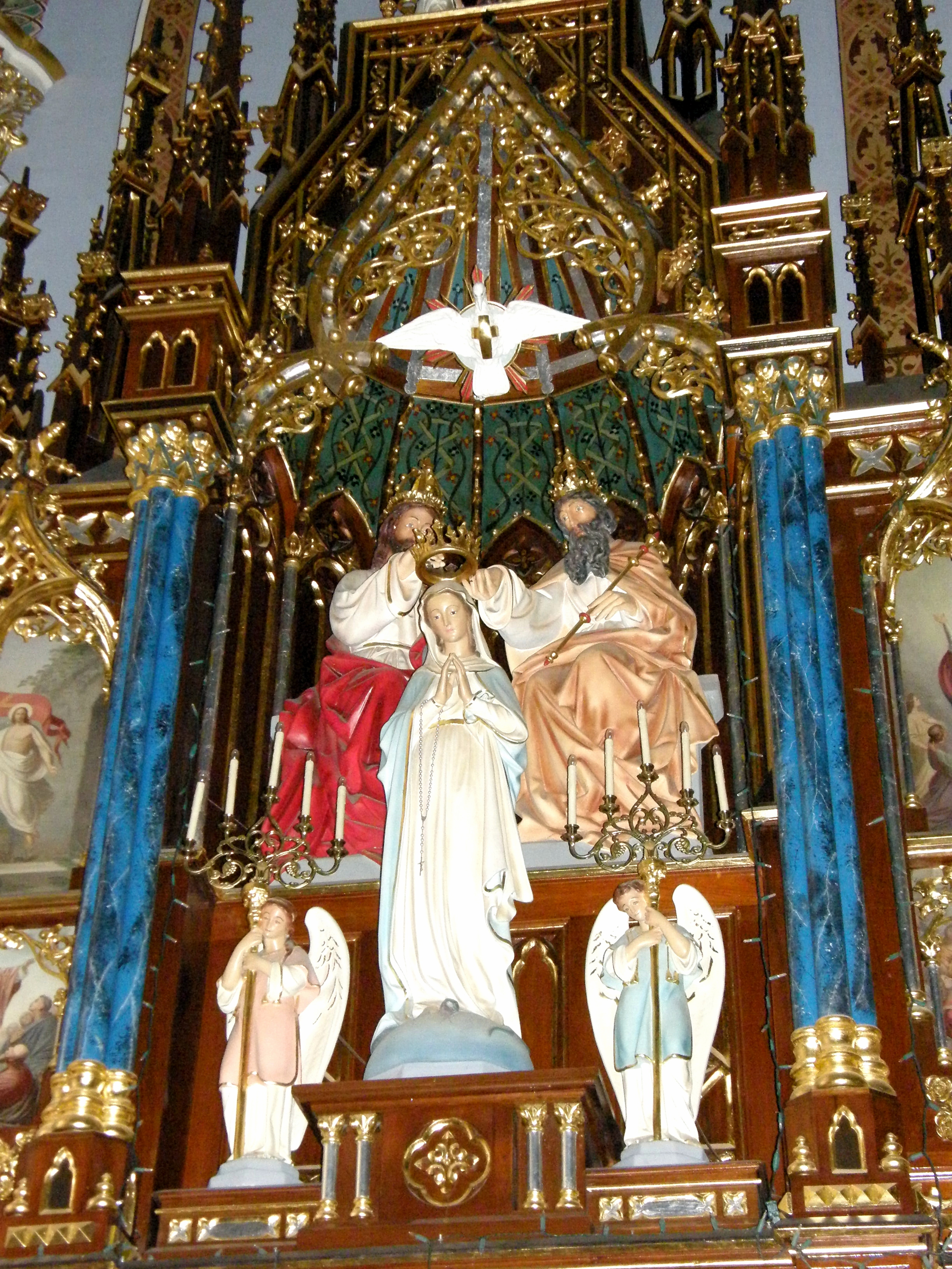 Basilica of Saint Francis Xavier (Dyersville, Iowa), interior, Altar of the Blessed Virgin Mary, detail of shrine depicting the Coronation of Saint Mary